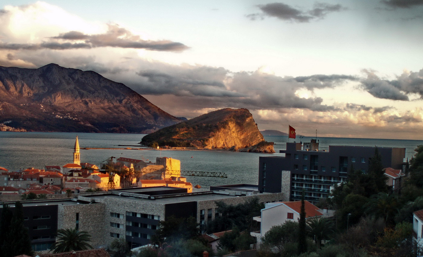 Budva Montenegro (decembar)